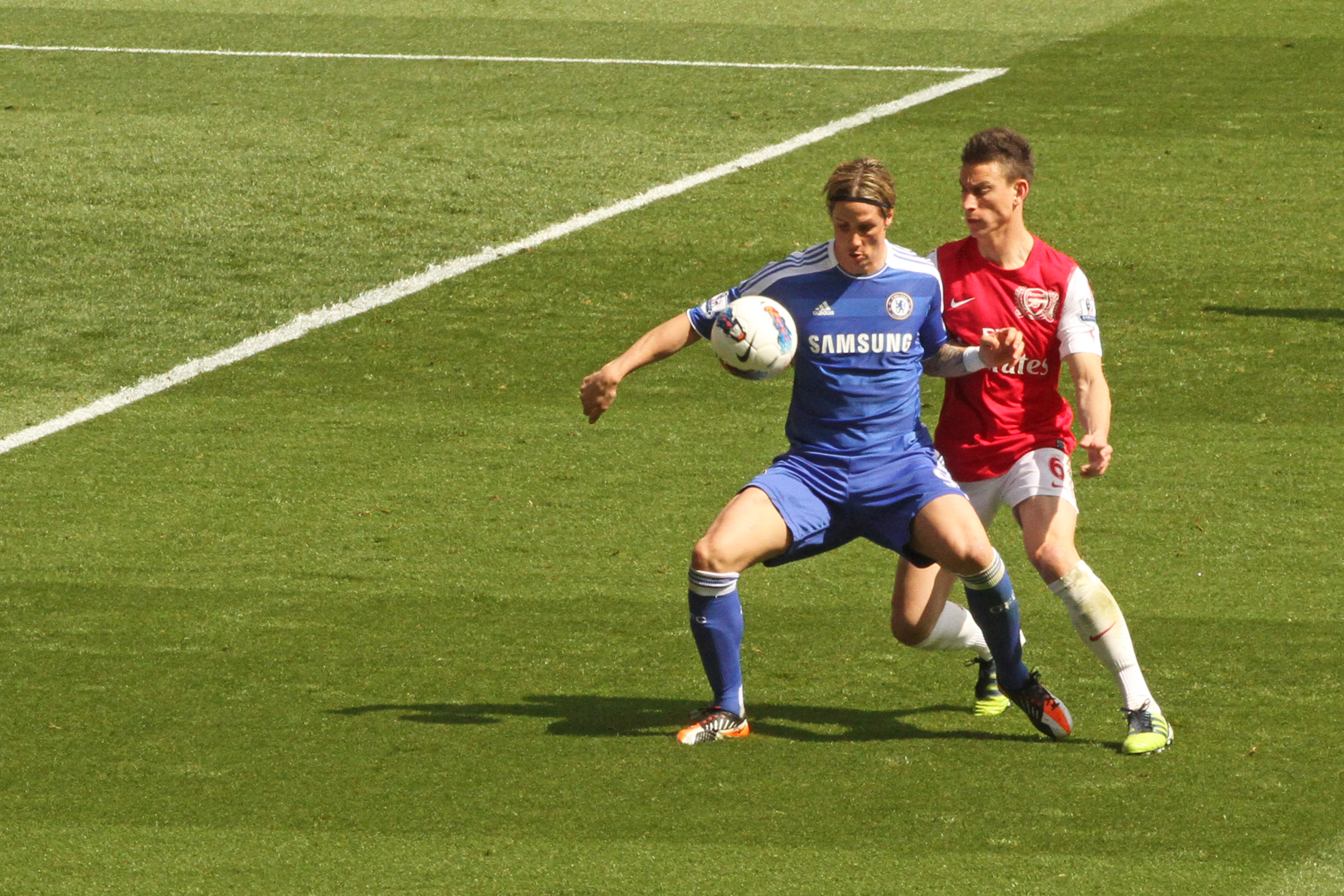 Fernando Torres of Chelsea vs Laurent Koscielny of Arsenal.